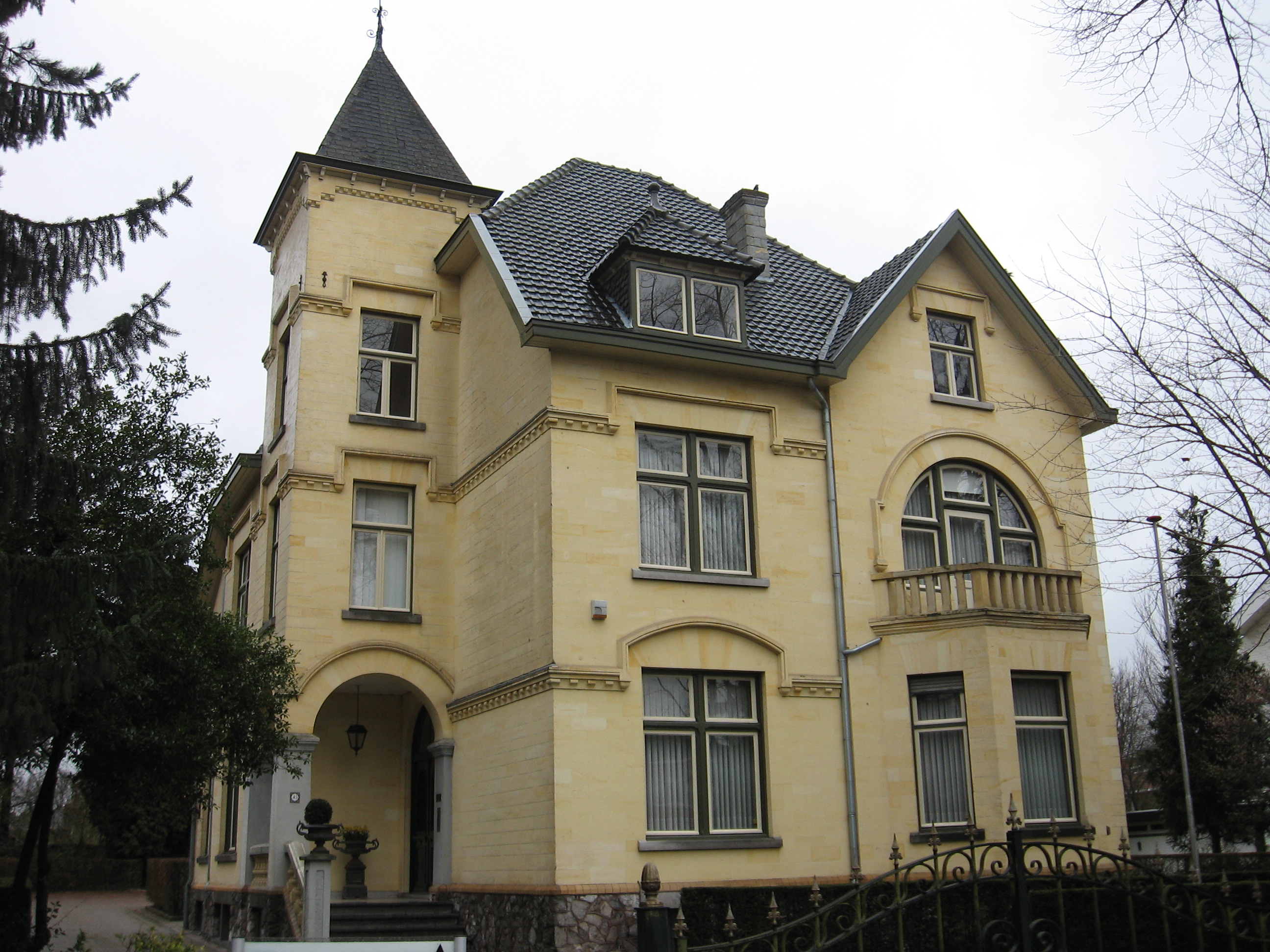 Beek, villa, RM 513188